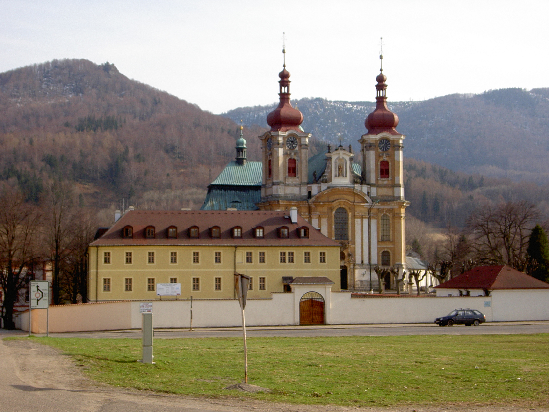 Basilica of the Visitation and monaster in Hejnice, Liberec District, Czech Republic.